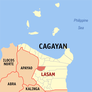 Map of Cagayan showing the location of Lasam